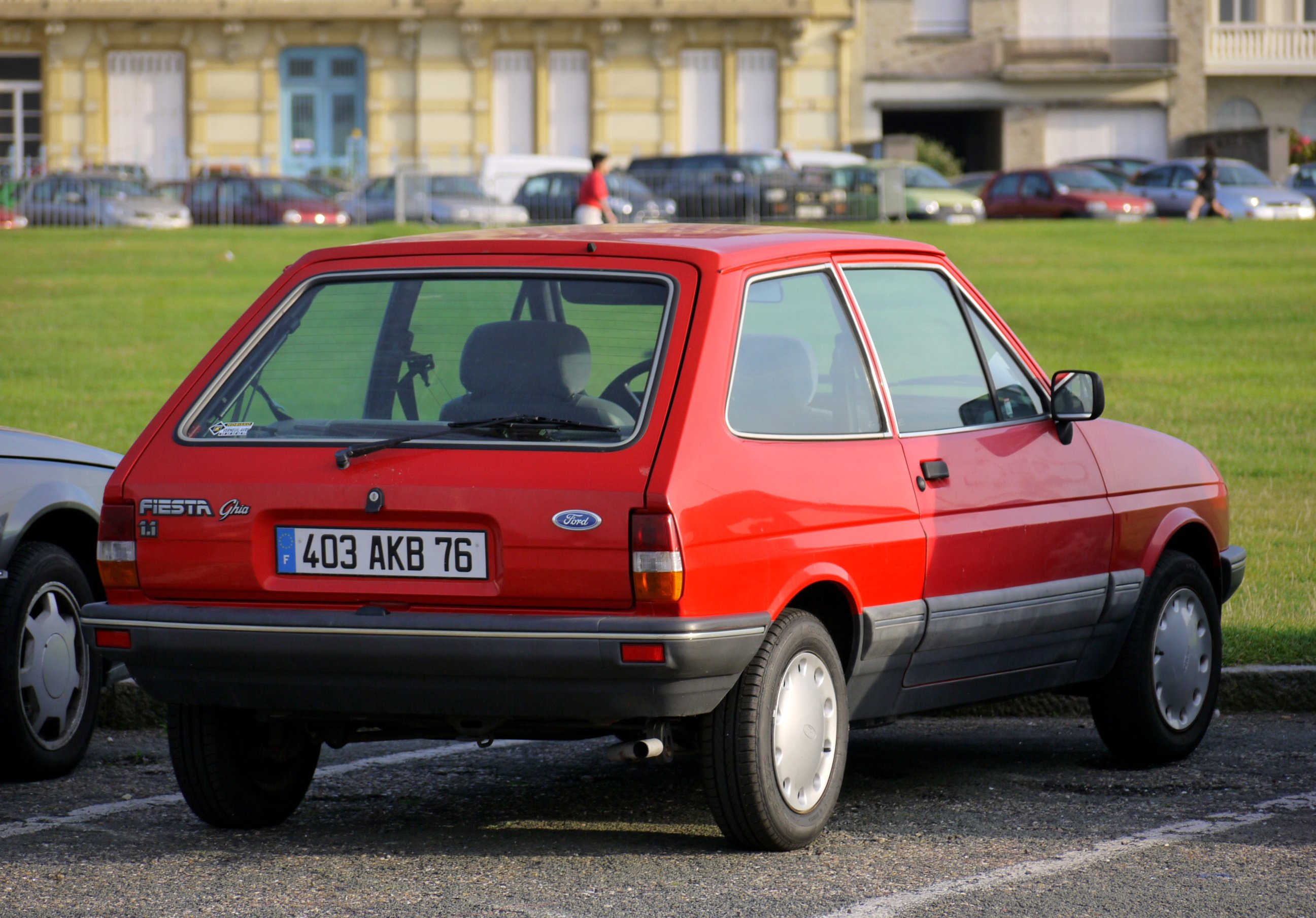 Ford Fiesta 1.1 Ghia MkII - in excellent condition.